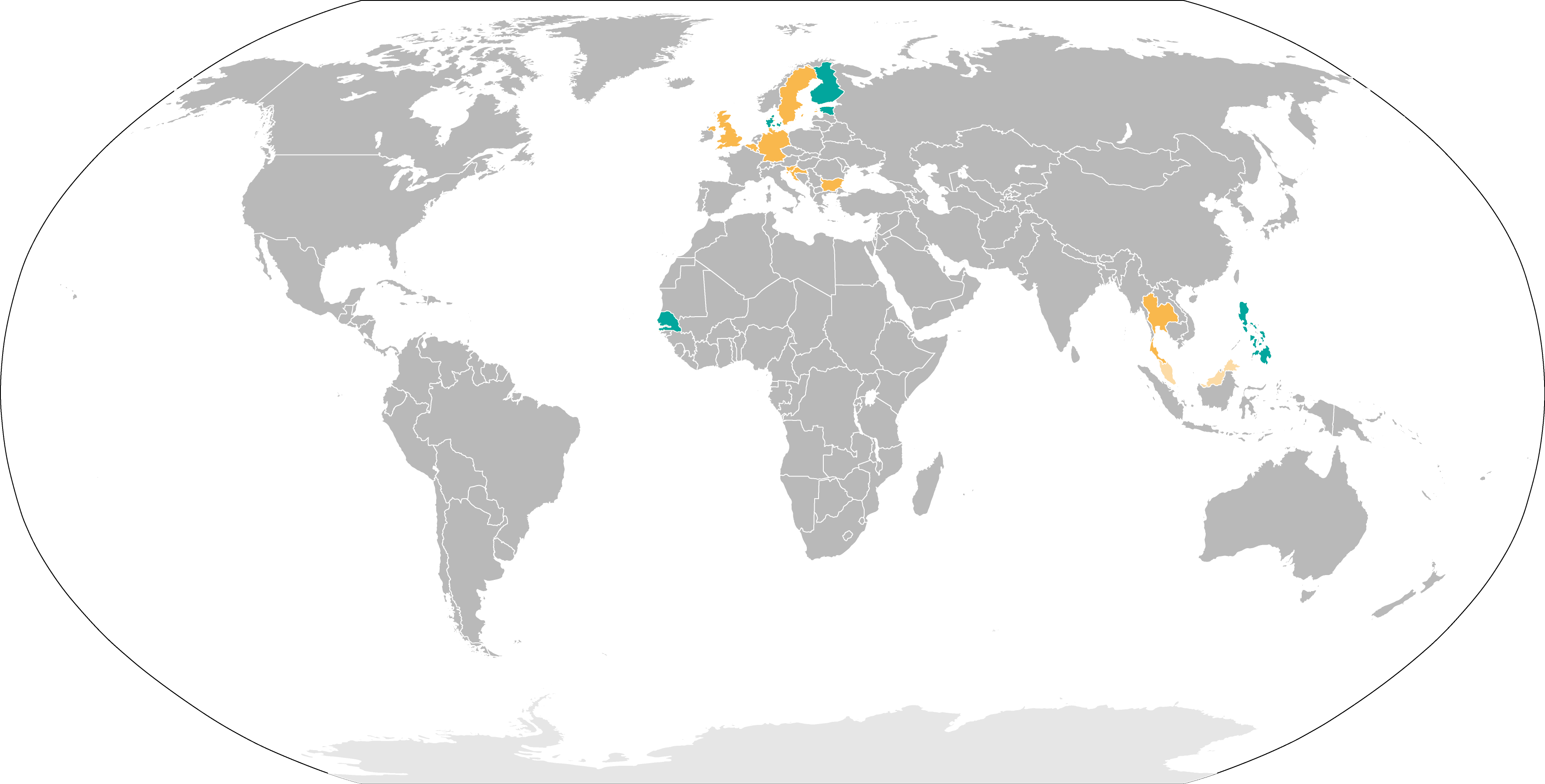 A map of states currently governed by member (gold), or observer parties (light gold) of Liberal International.